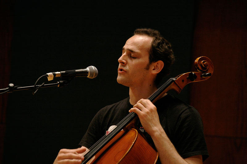 Mike Block sings at 2011 New Directions Cello Festival